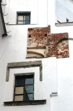 Mir Castle